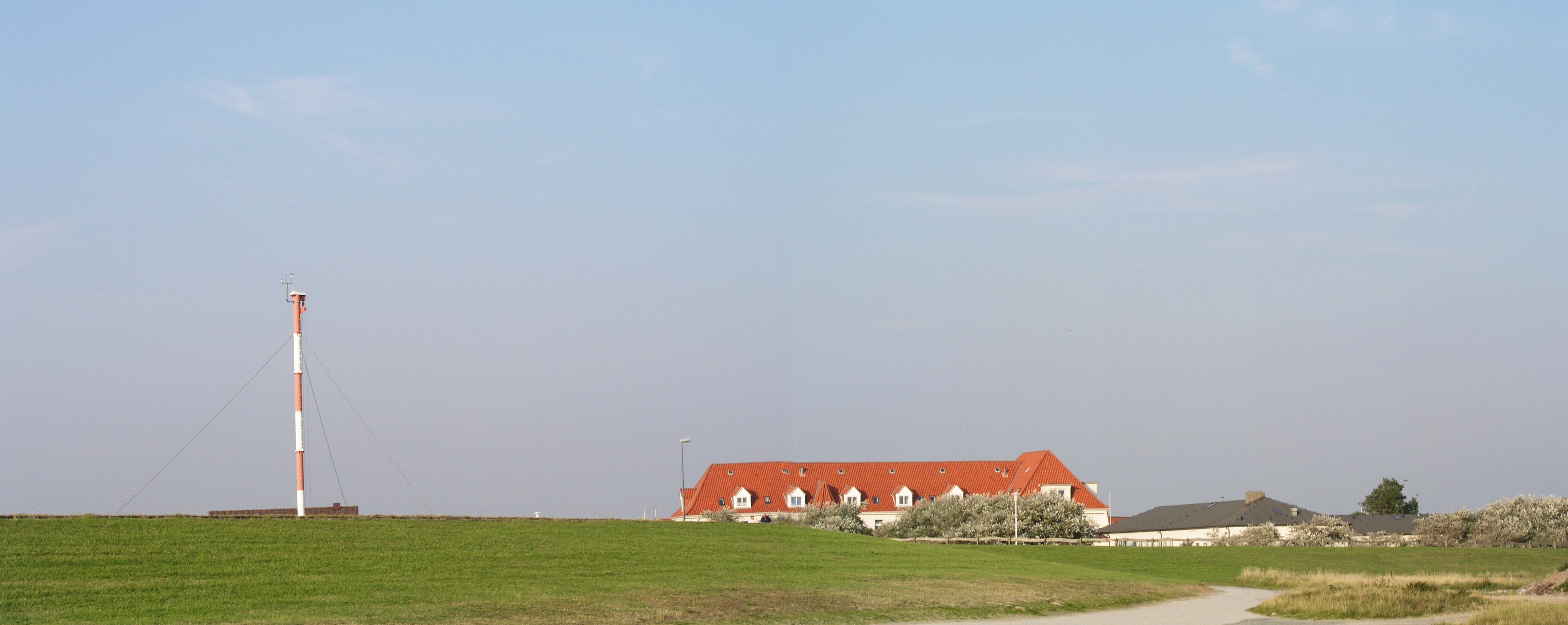 Panorma harbour of Norderney, Germany